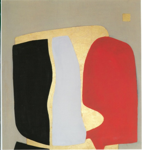 painting by Margherita Pavesi Mazzoni, 'Nigredo, Albedo, Rubedo: the pilgrimage of the soul through the metamorphosis'